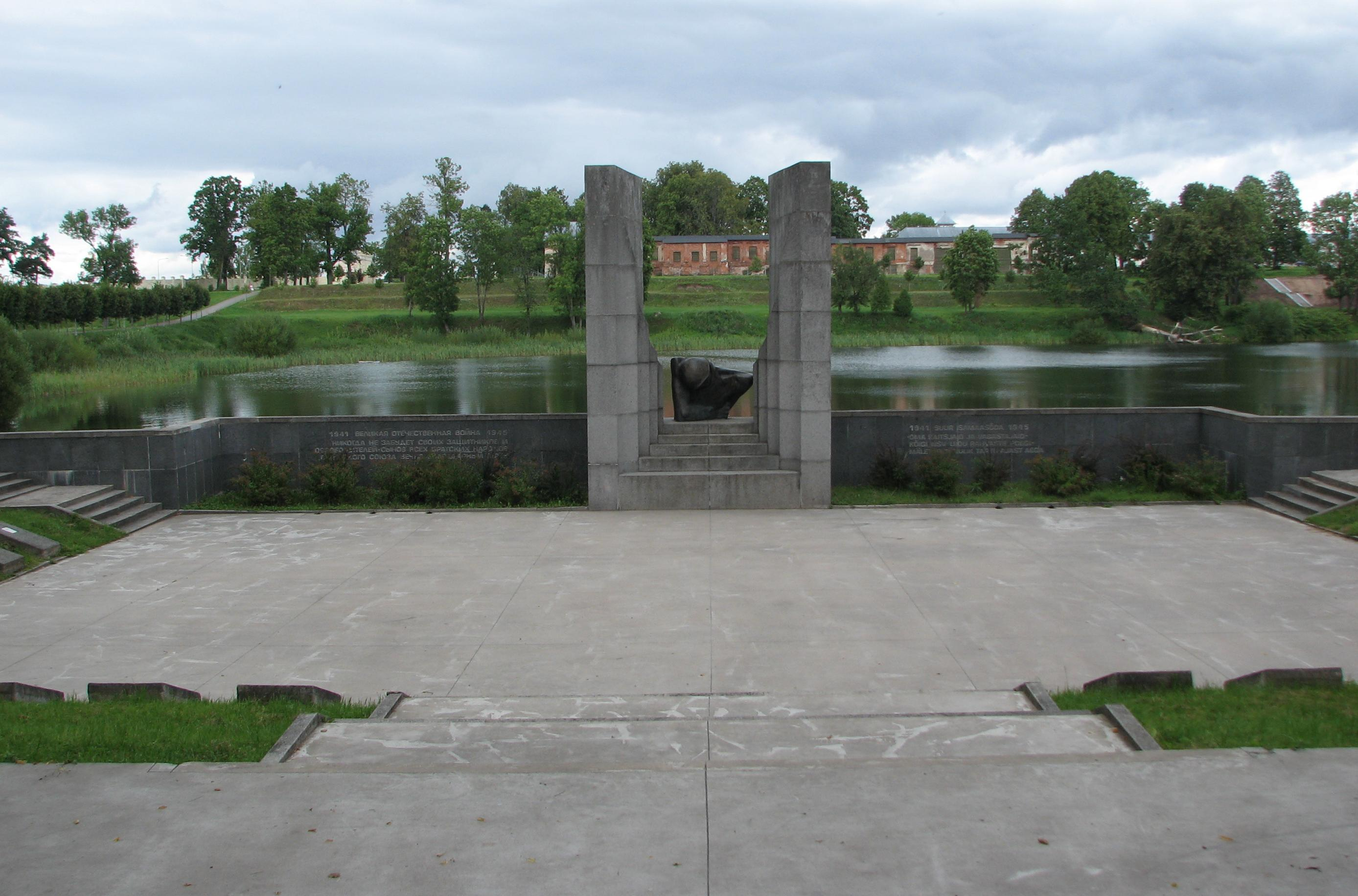 World War II Memorial in Tartu, Estonia. Year 2008